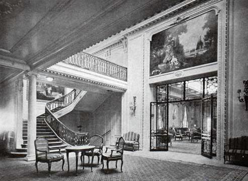 Entrance Foyer of the RMS Majestic (1914)